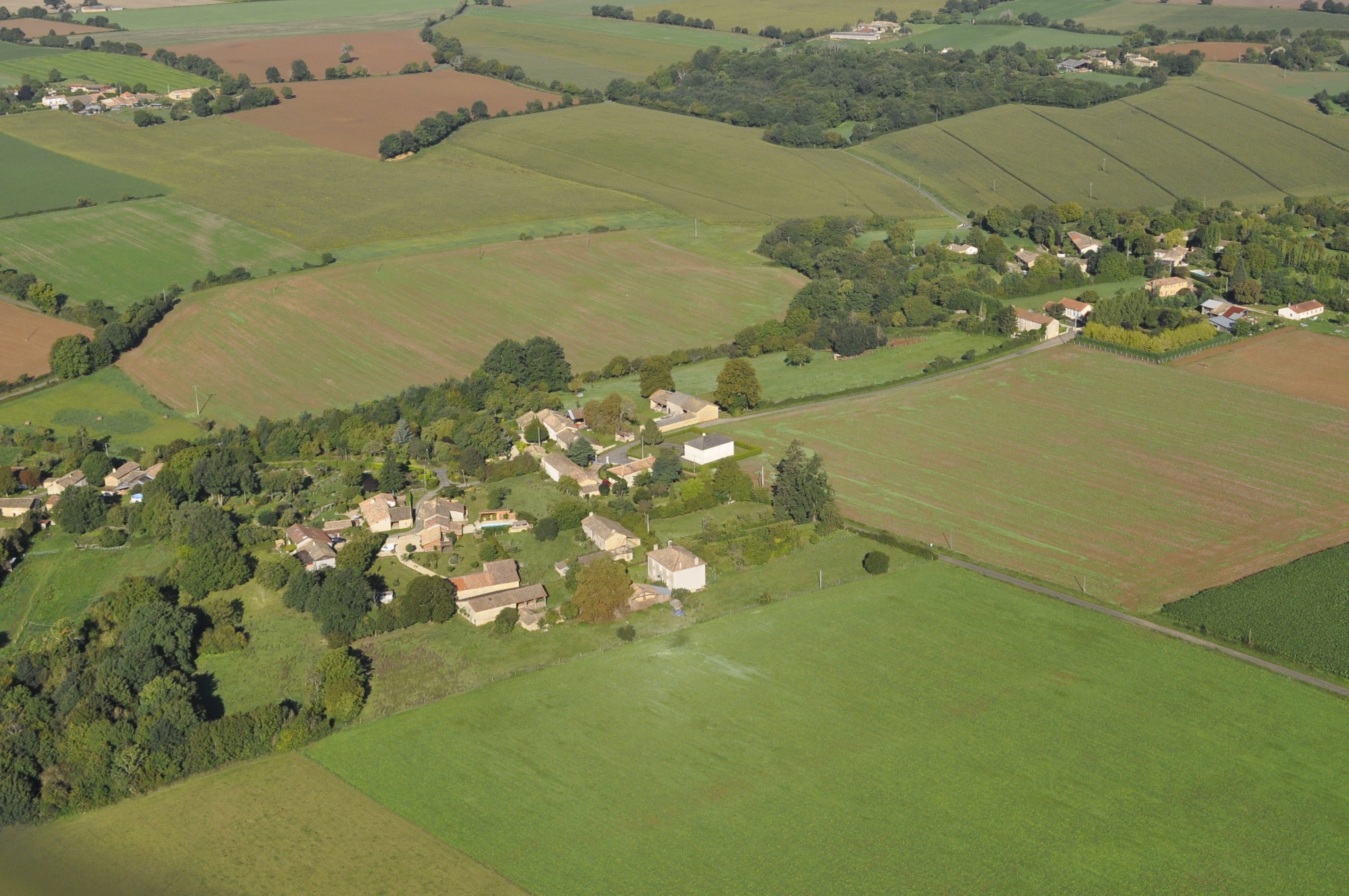 Le Tertre de Saint-Coutant from the air